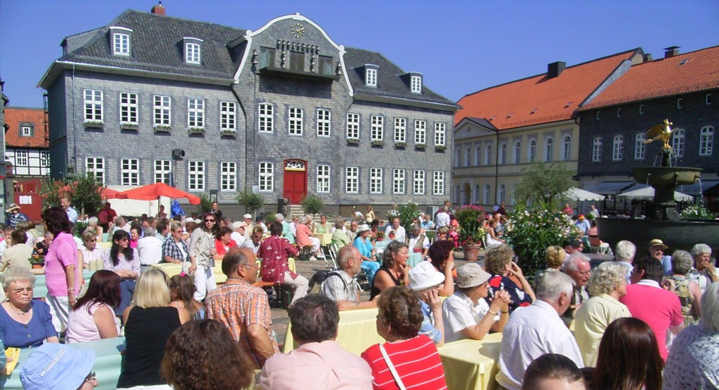 Onlooker in the german TV show "Lustige Musikanten on Tour mit Marianne und Michael"